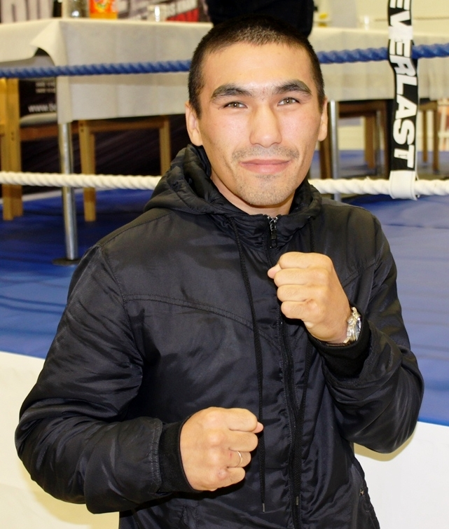 Denis Shafikov at the press conference in Espoo, Finland on September 21, 2011.